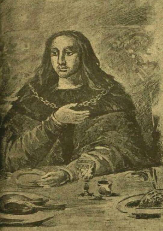 Louis II of Hungary by Károly Cserna